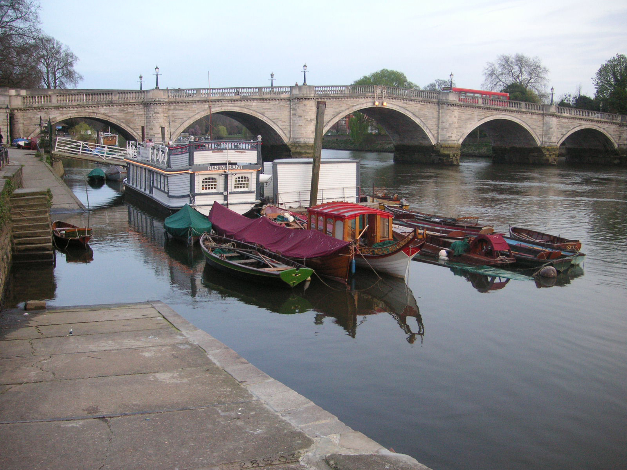 Richmond, London. Richmond Bridge at dusk